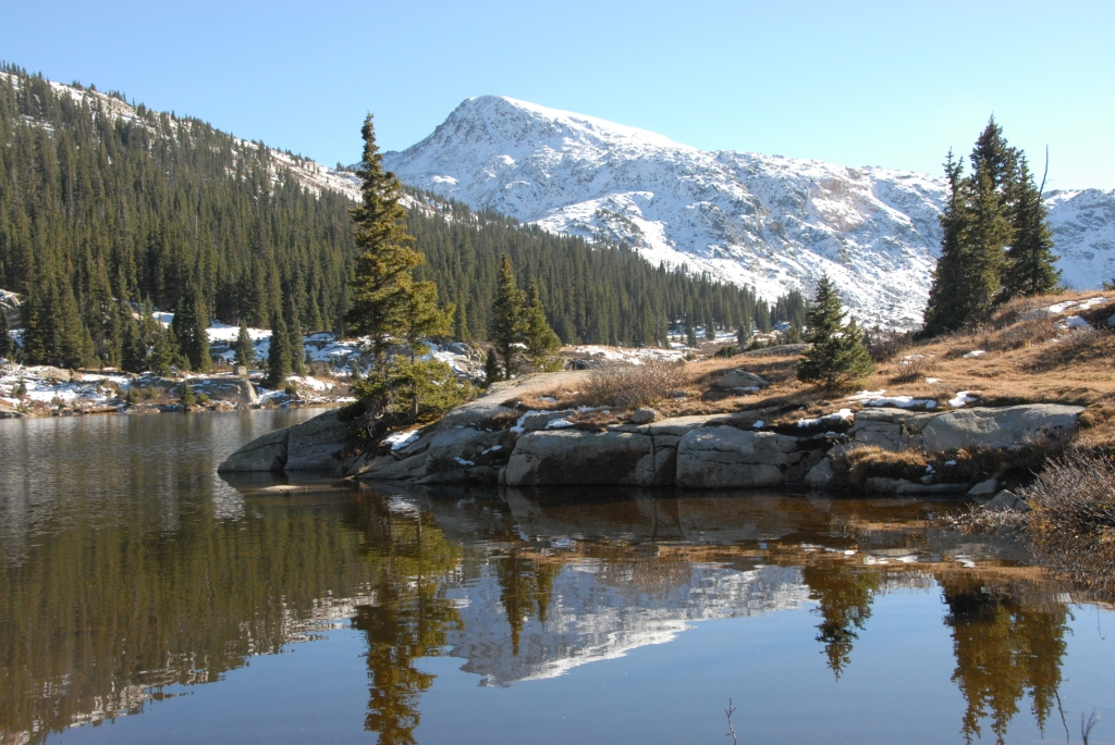 Cross Creek